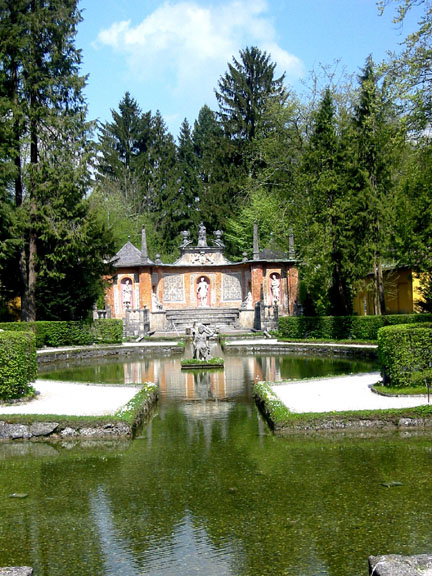 Austria, Salzburg, Hellbrunn Palace